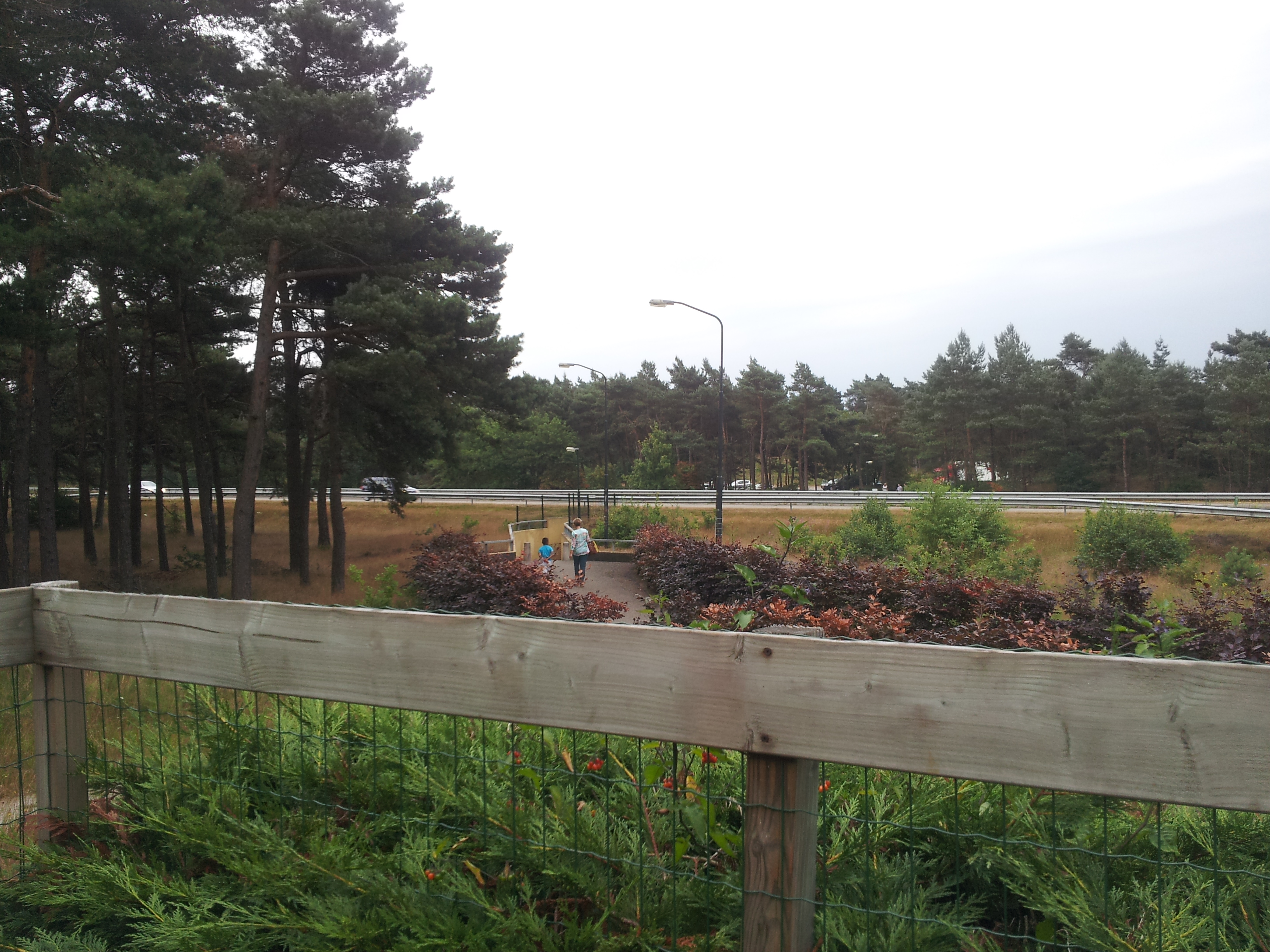 Rest area Hendriksbos